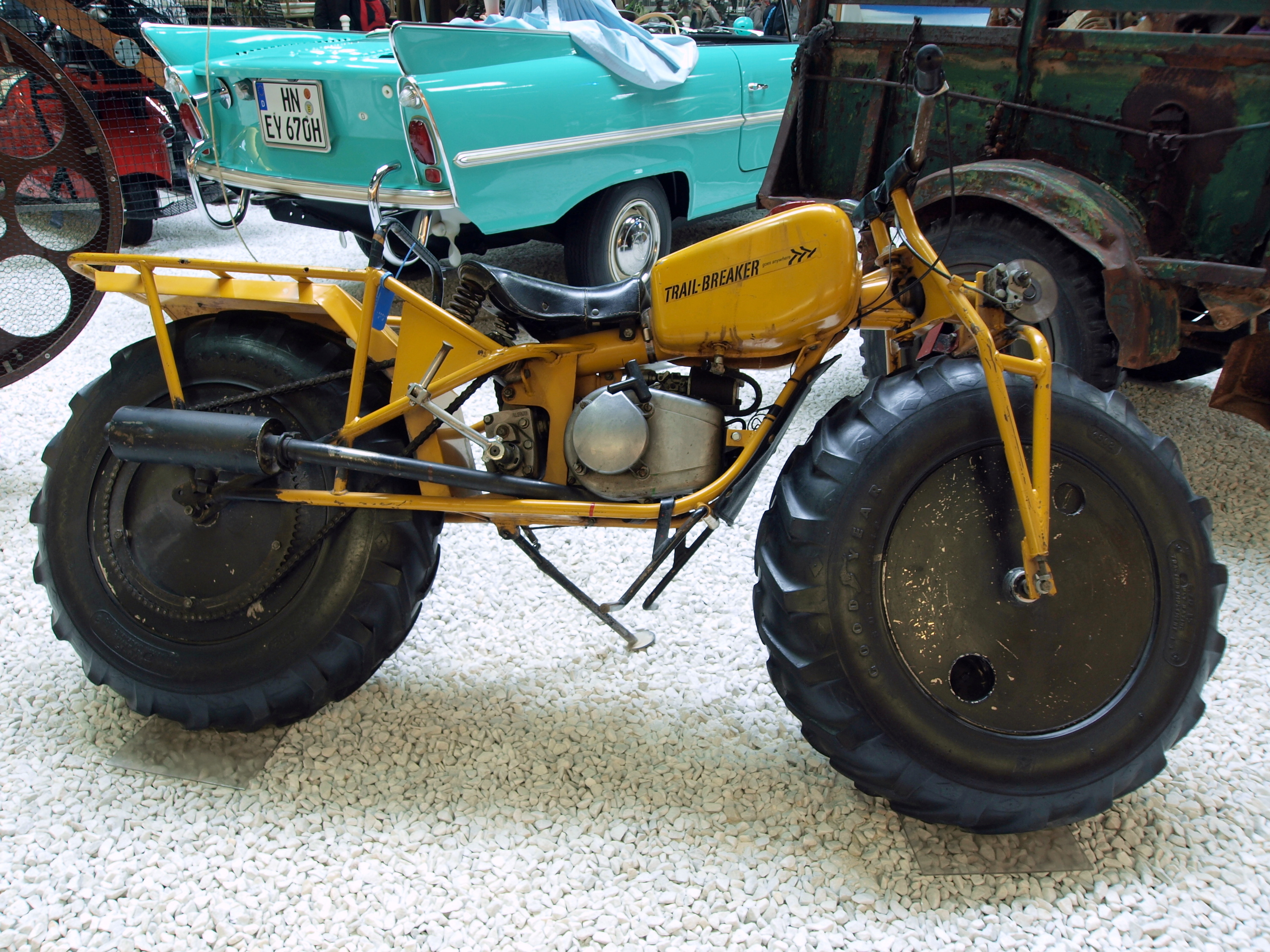 Photographed at the Auto & Technic museum Sinsheim.